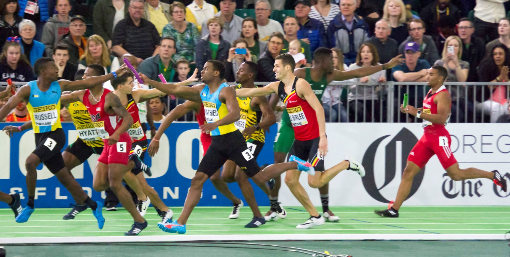 5235 dylan-jonathan borlee finale 4x400m